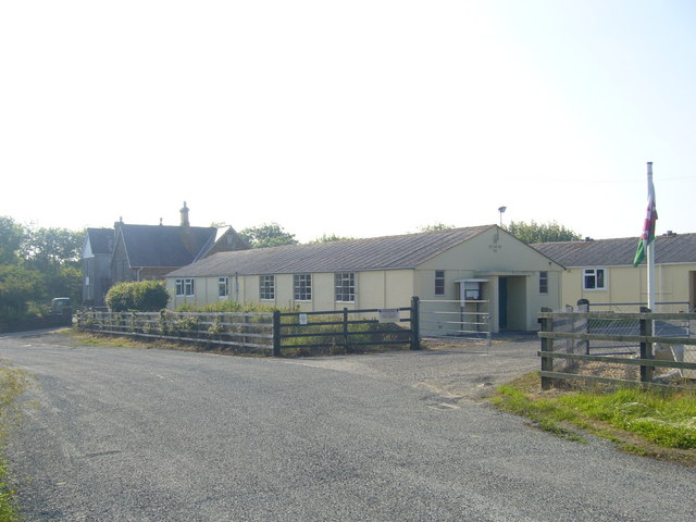 Camrose Community Centre The building looks as though it is part of a former army camp. On the left is a former primary school. On the right beneath the Welsh flag is a tablet in memory of Private Thomas Collins from Camrose who was the sole Pembrokeshire representative at the Battle of Rorke's Drift on 22/23 January 1879. It was only erected in May 2006.